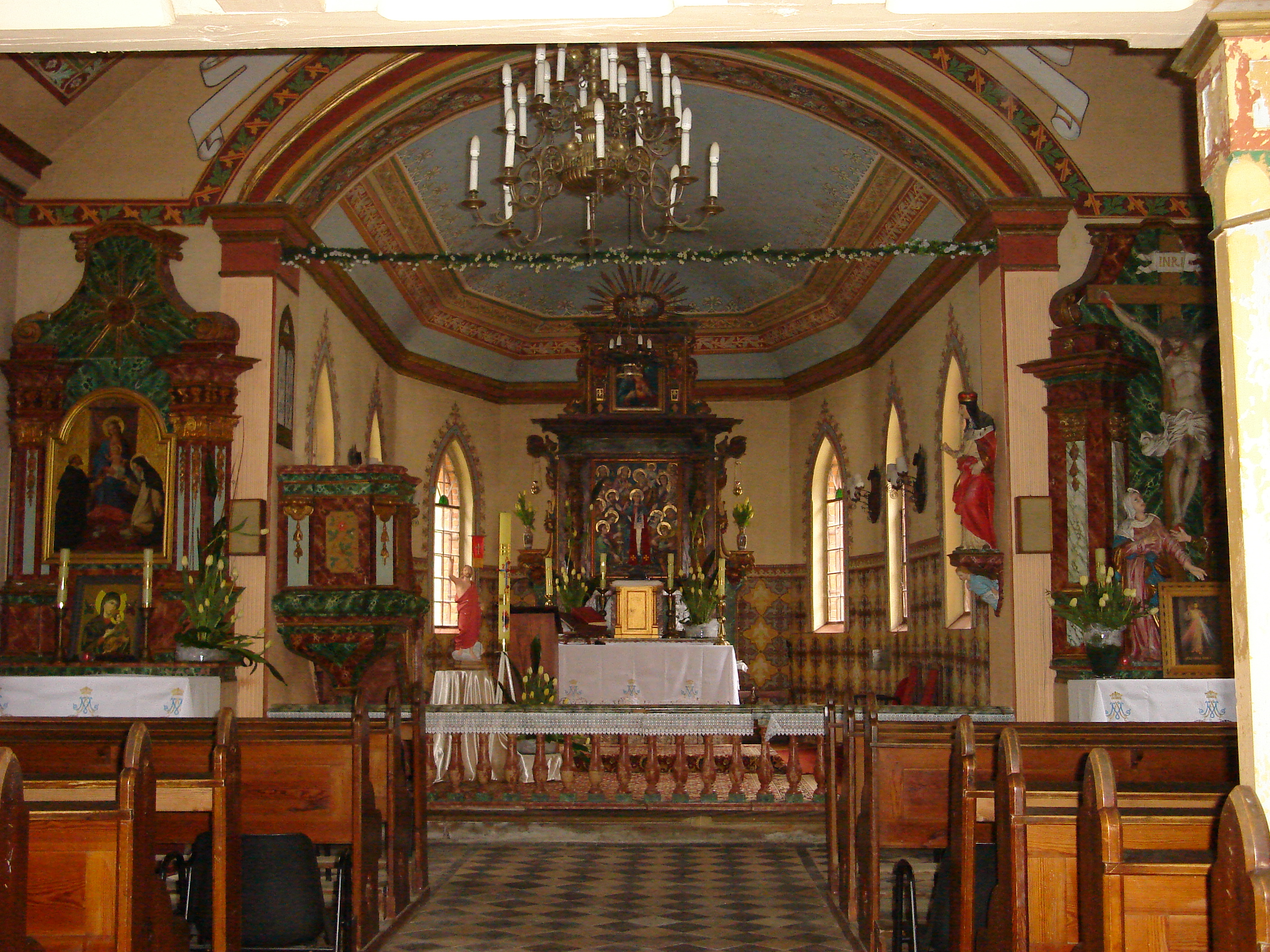 The interior of the church